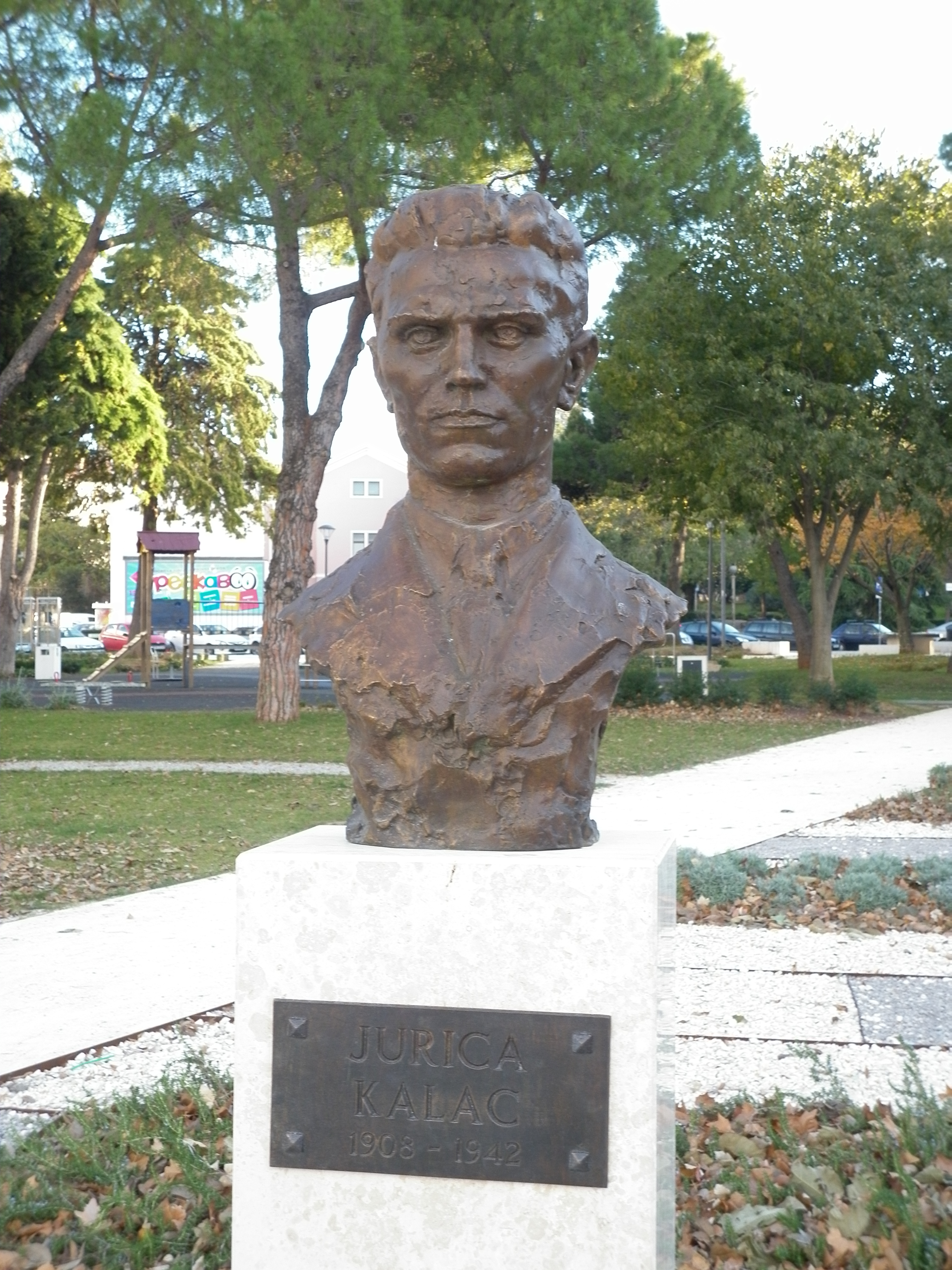 Bust of People's Hero of Yugoslavia fighter, Juraj-Jurica Kalc, Tito's Park, Pula.